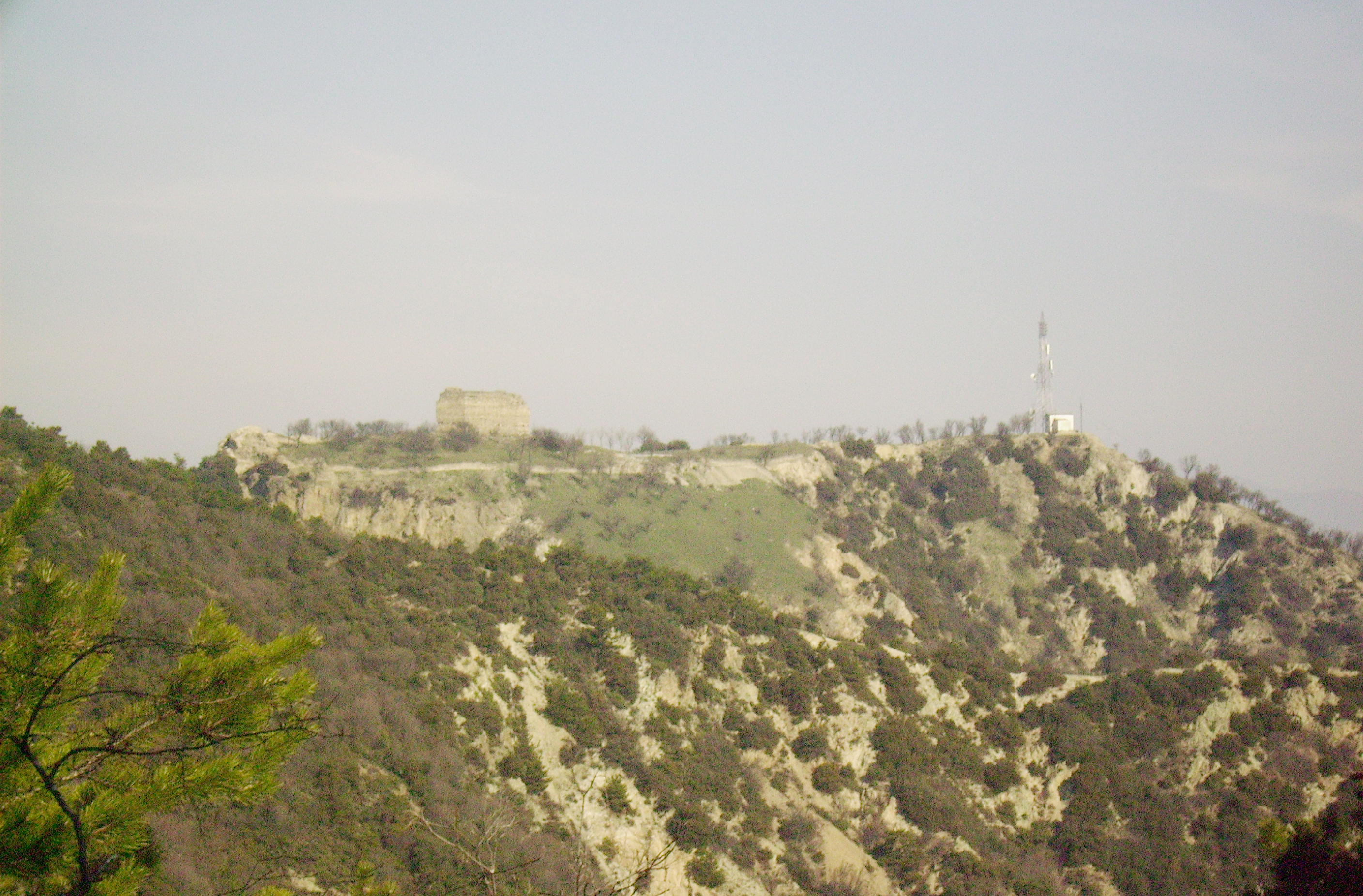 Carevi Kuli